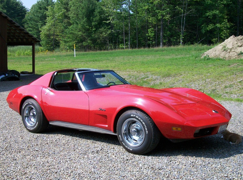 1974 Corvette Stingray Coupe